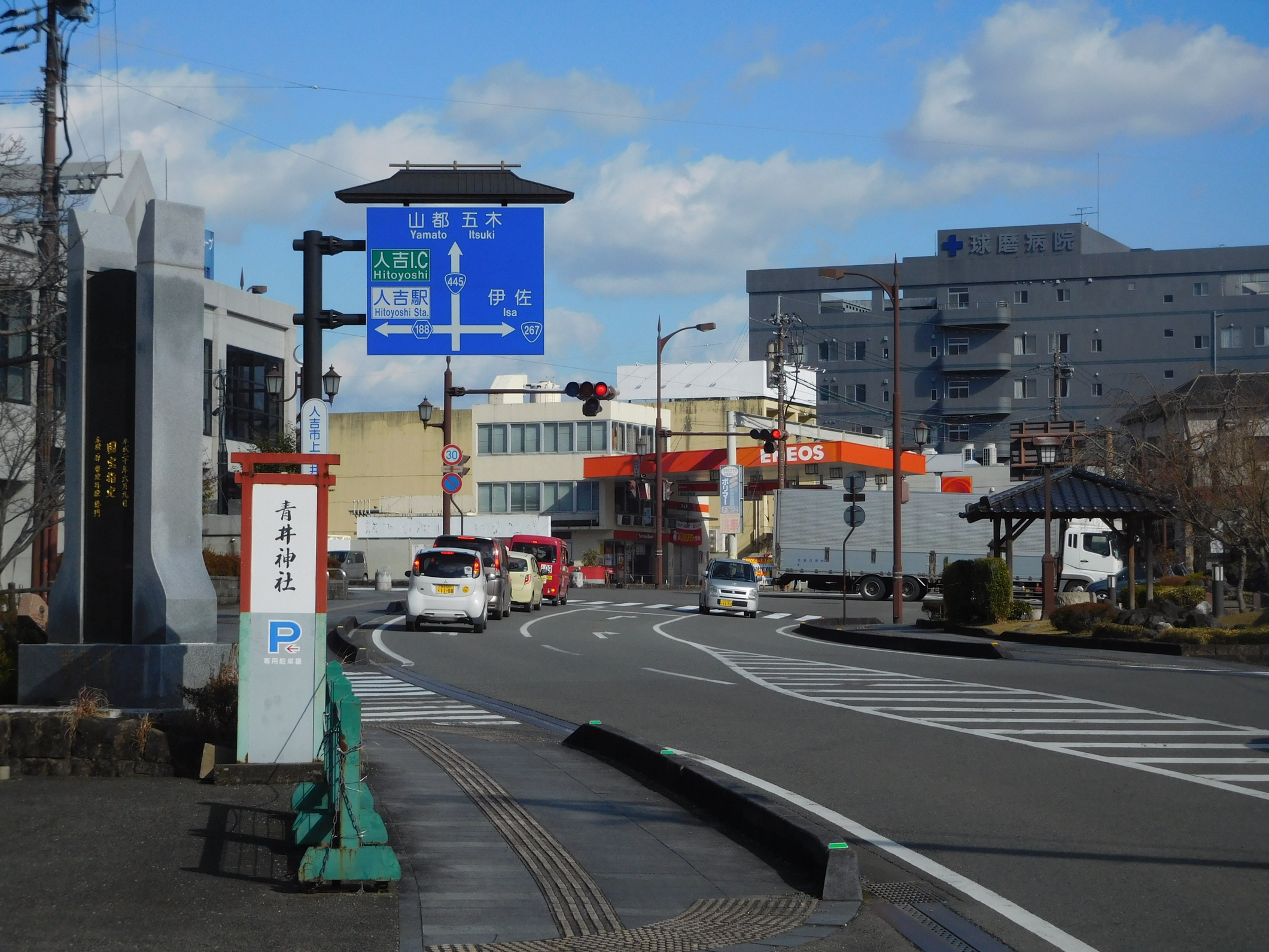 National Route 445 - Central Hitoyoshi City, Kumamoto Prefecture, Japan.